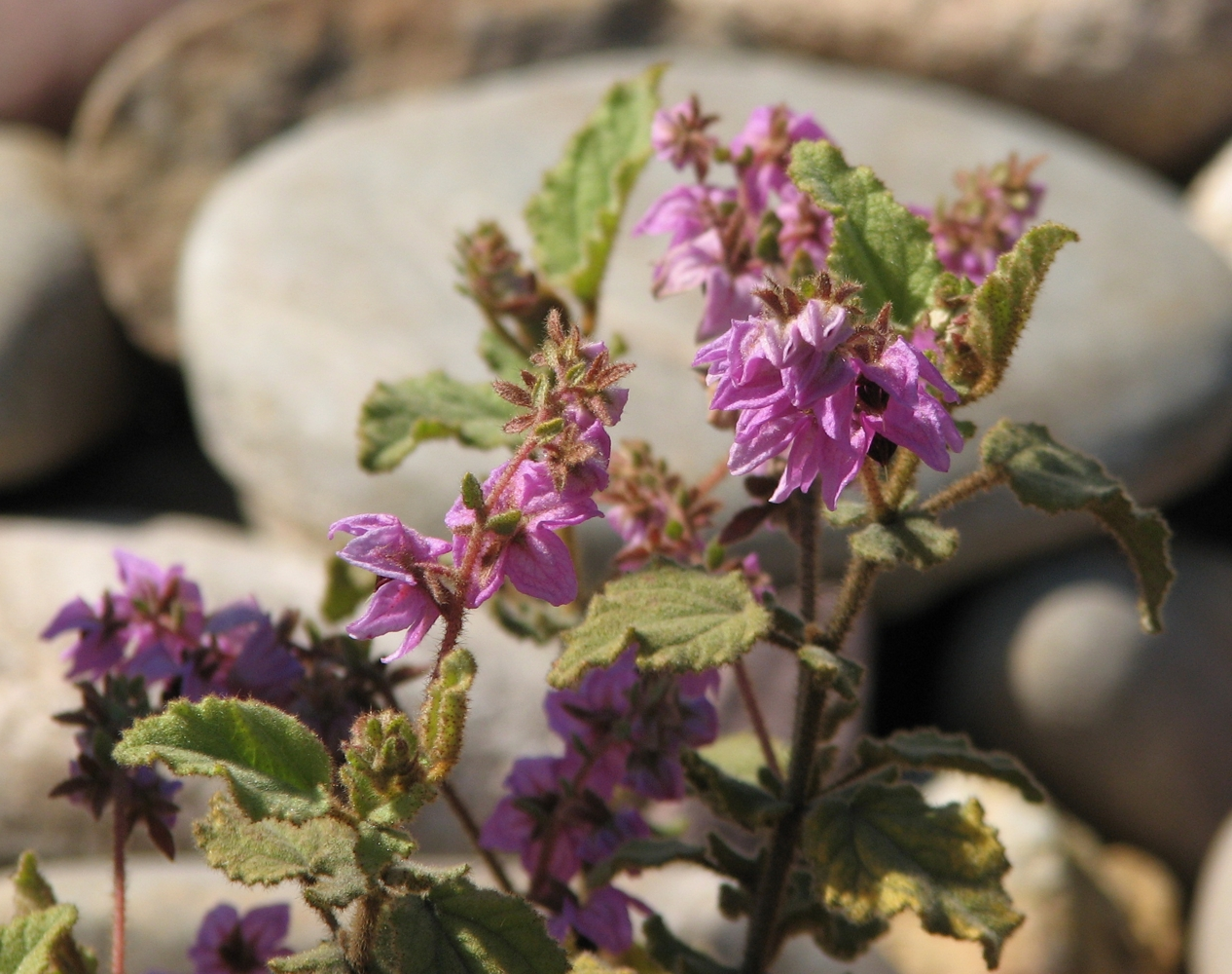 Thomasia tenuivestita, Cranbourne Botanic Gardens, Victoria, Australia